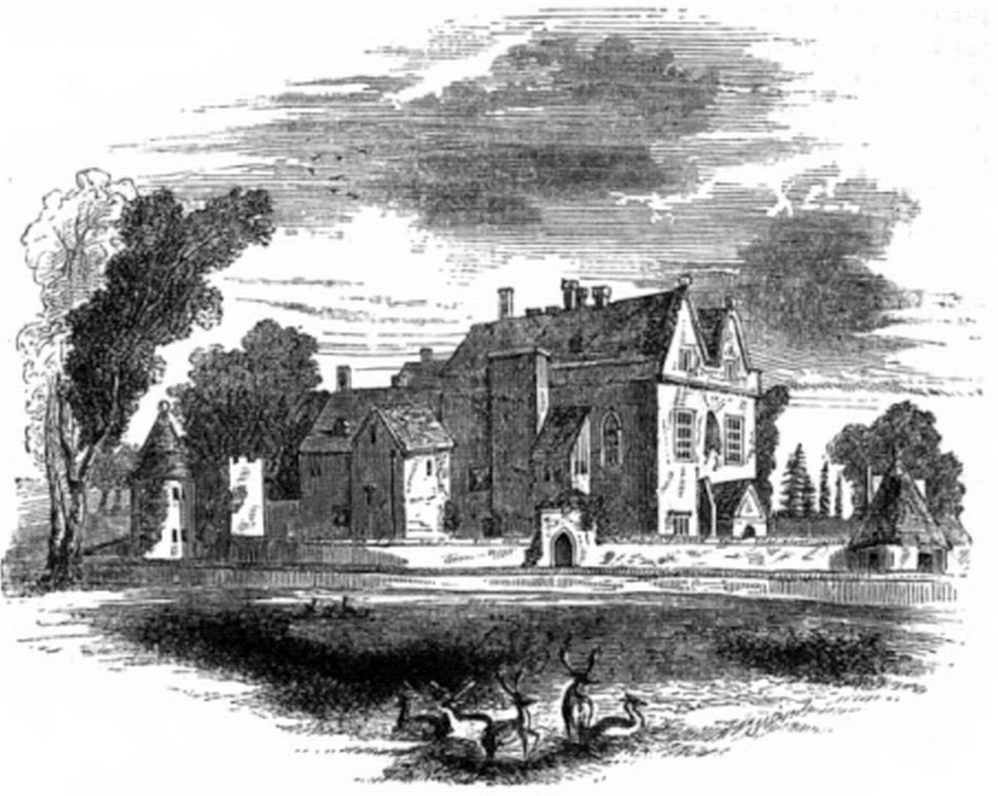 The title is the same as the image caption above & in "Cassell's Illustrated History of England, Volume 2". The number shown is the page number. Follow the image link to the full book vol.2.